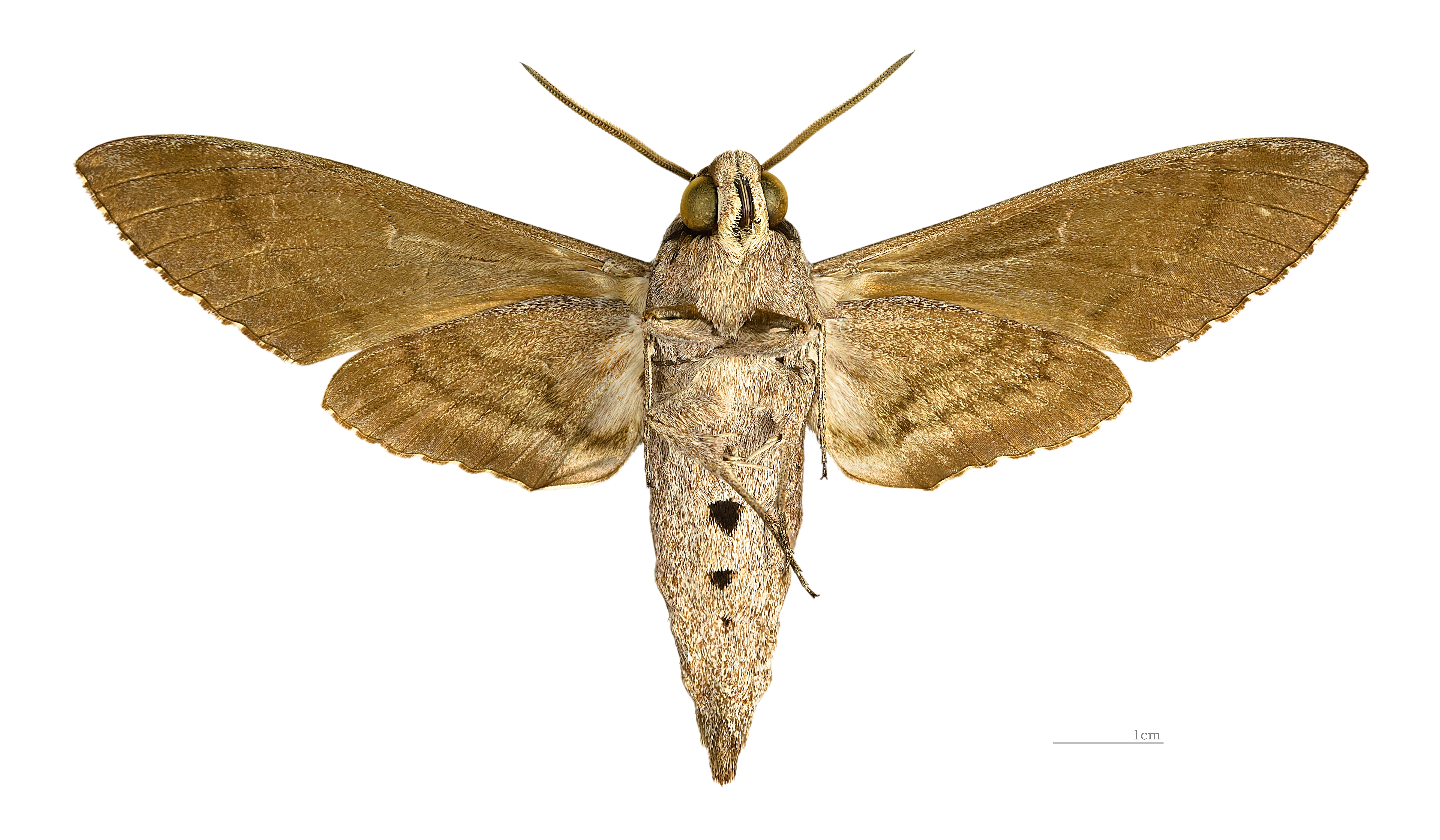 Convolvulus Hawk-moth - △ Ventral side